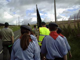 BPSA Scouts and Air Scouts marching from Fourstones to Carr Edge, Humshaugh, on 22nd August 2008.